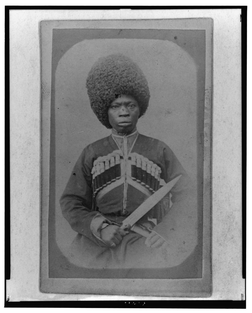 Afro-Karabakhian